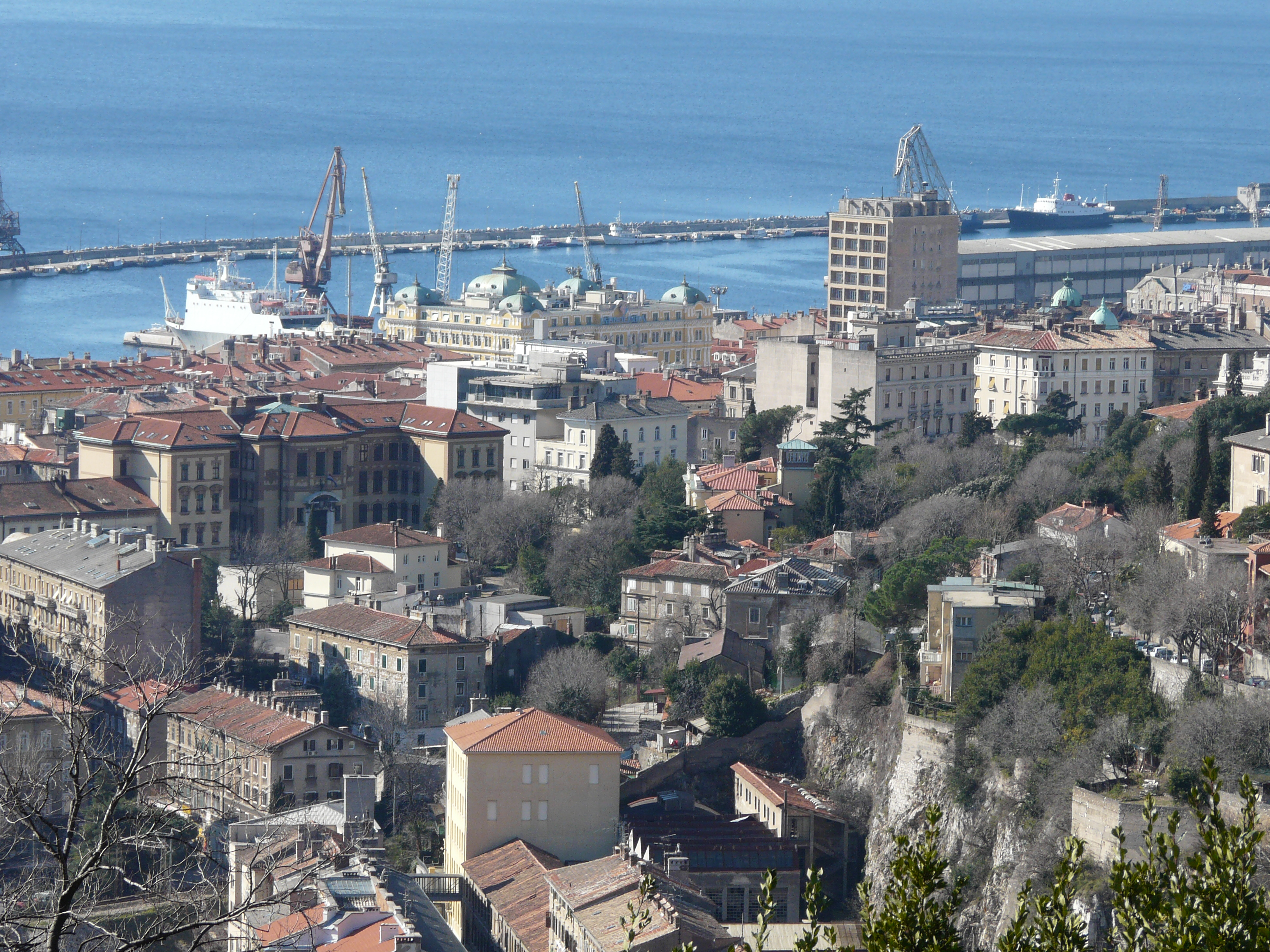 Palace Adria (Jadran), Rijecki Neboder and Court Palace in RIjeka_View from Trsat castle.